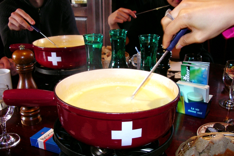 Swiss fondue